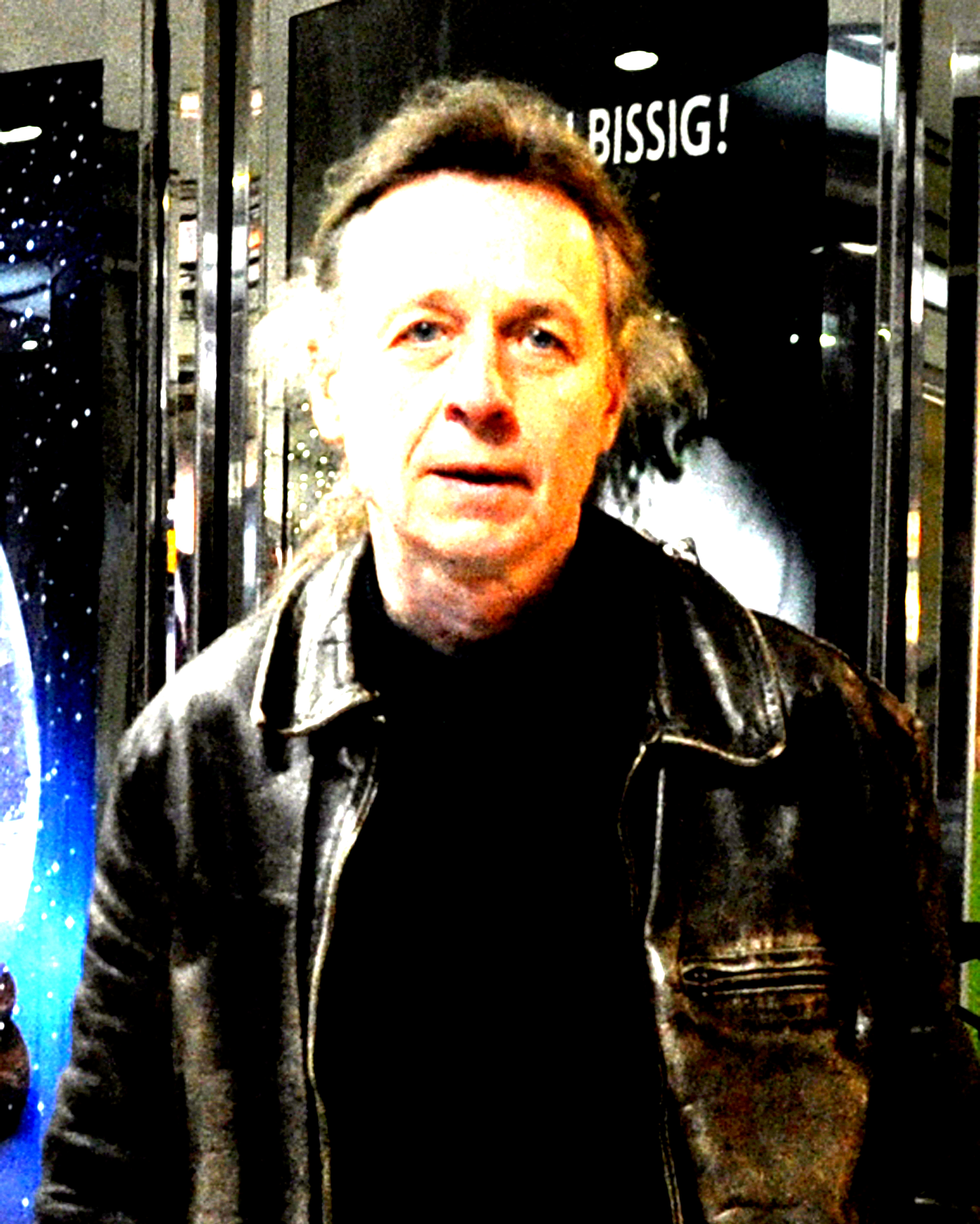 roger matura; cologne jan2012